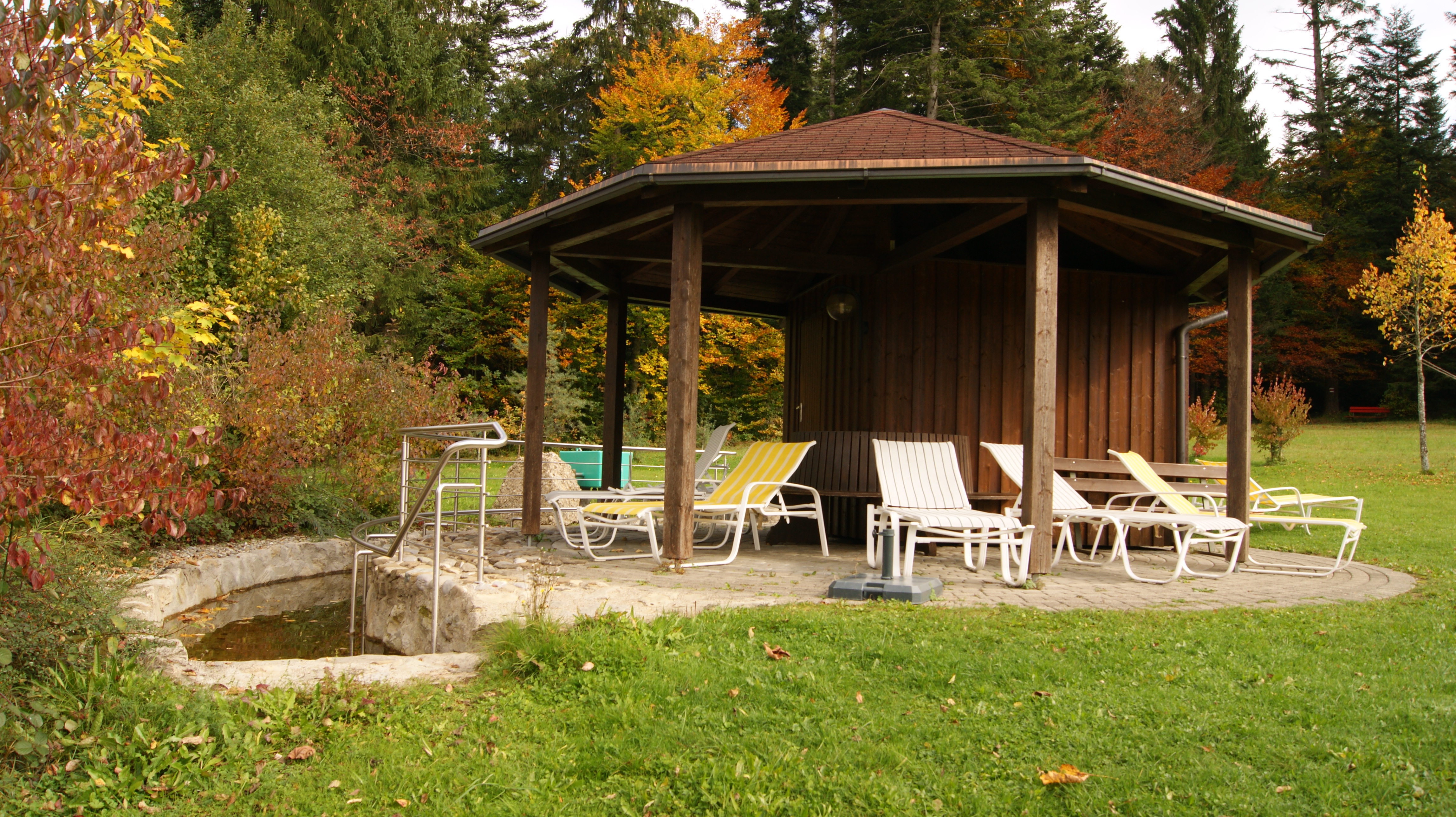 Spa Rossbad in Krumbach, Vorarlberg, Austria. Hotel. Kneipp water-treading basin.